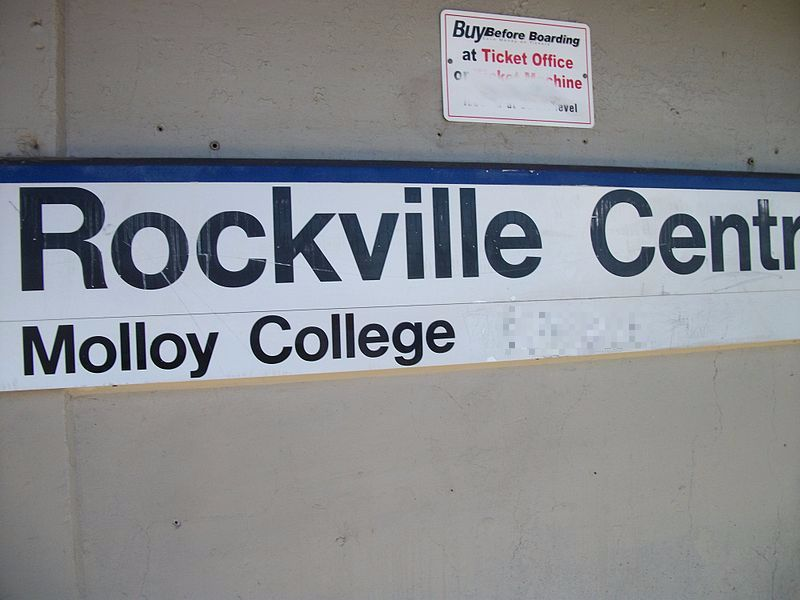 Standard LIRR helvetica sign with blue stripe above the lettering at Rockville Centre (LIRR station) in Rockville Centre, New York, which also contains a supplemental destination for Molloy College. The scratched-in cursive graffiti has been removed in this version.